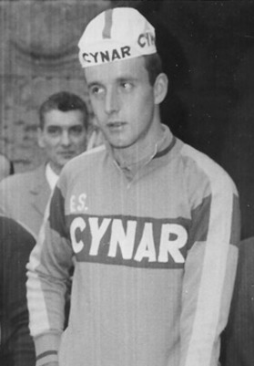 Cynar cycling team 1963